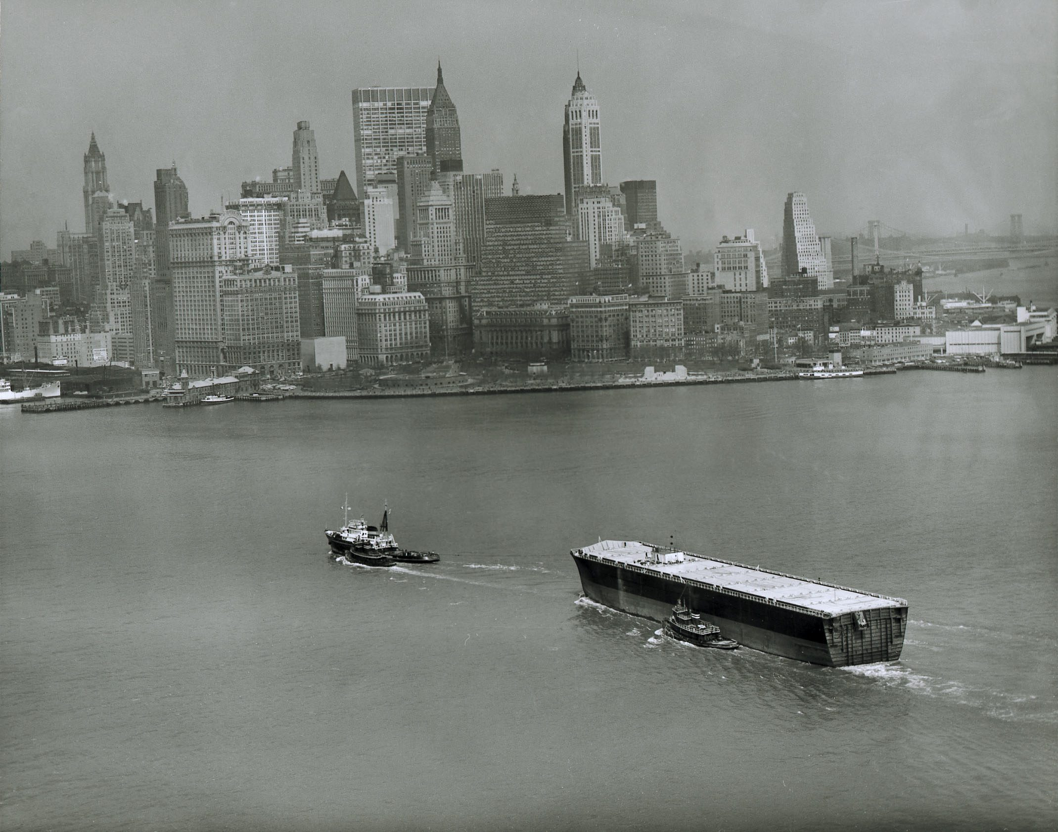 The early days of Sea-Land: 1962 - Arrival of dutch ocean going Tug "Thames" with a new midbody, built at Schlieker-Werft in Hamburg, for the conversion of a T3-tanker into a Sea-Land containership.